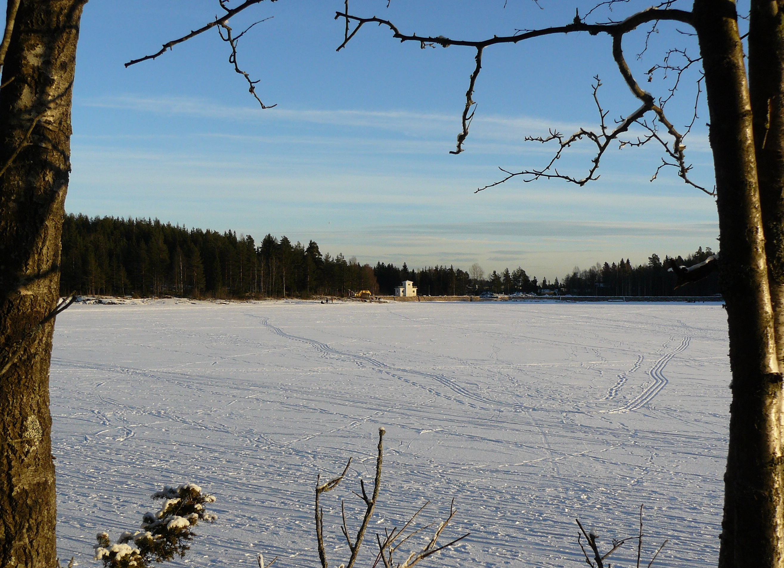 Alunsjøen in Lillomarka, Oslo. The lake is frozen and used for recreational iceskating as well as cc-skiing.